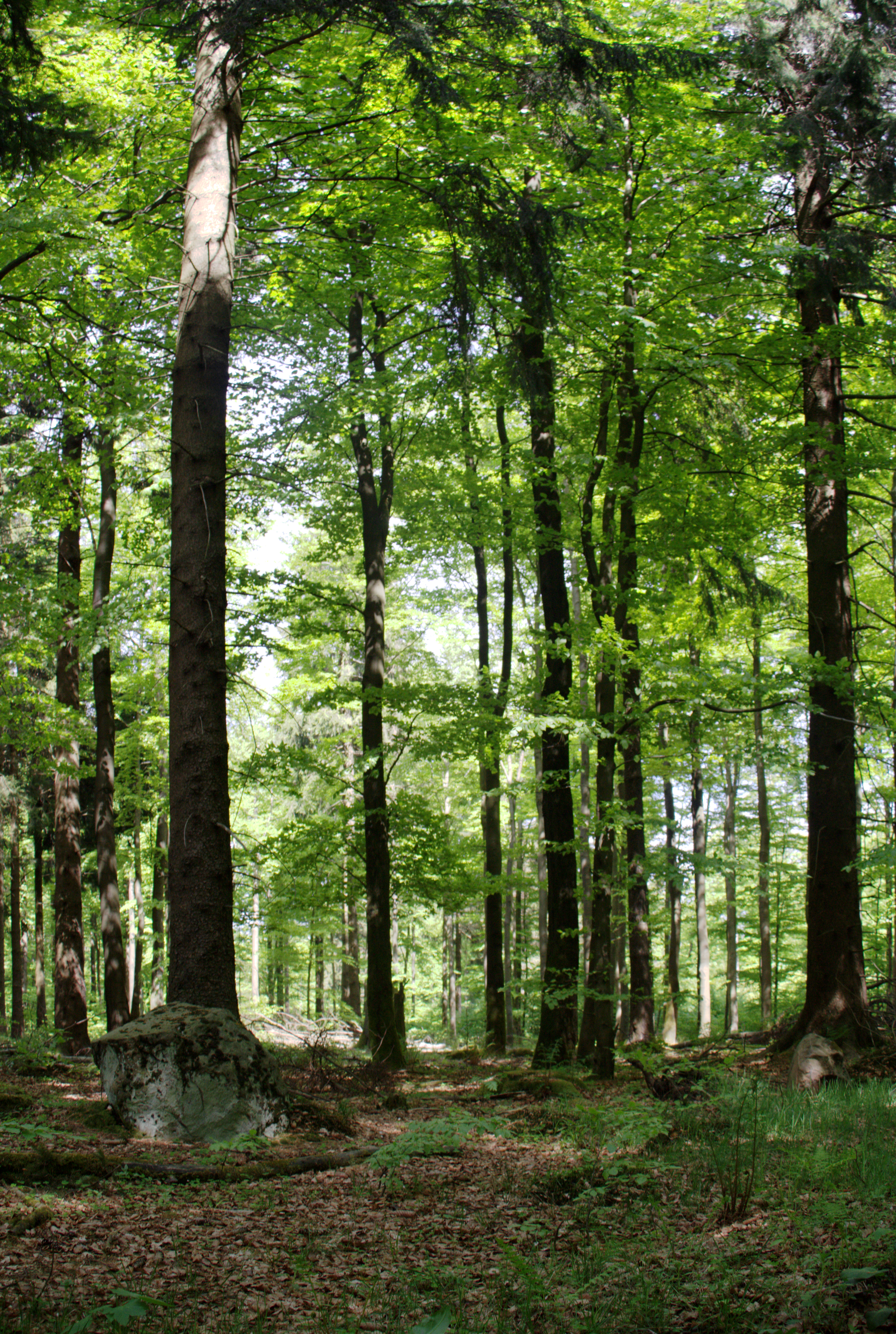 "Naturpark Hoher Vogelsberg" Sieben Ahorn Mountain "Summit" (Plateau), Rudingshain, Schotten / Feldkruecken, Ulrichstein, Hesse, Germany